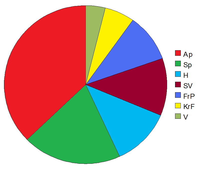 Distibution of the municipal council of Stjørdal in Norway for the period 2003–2007.